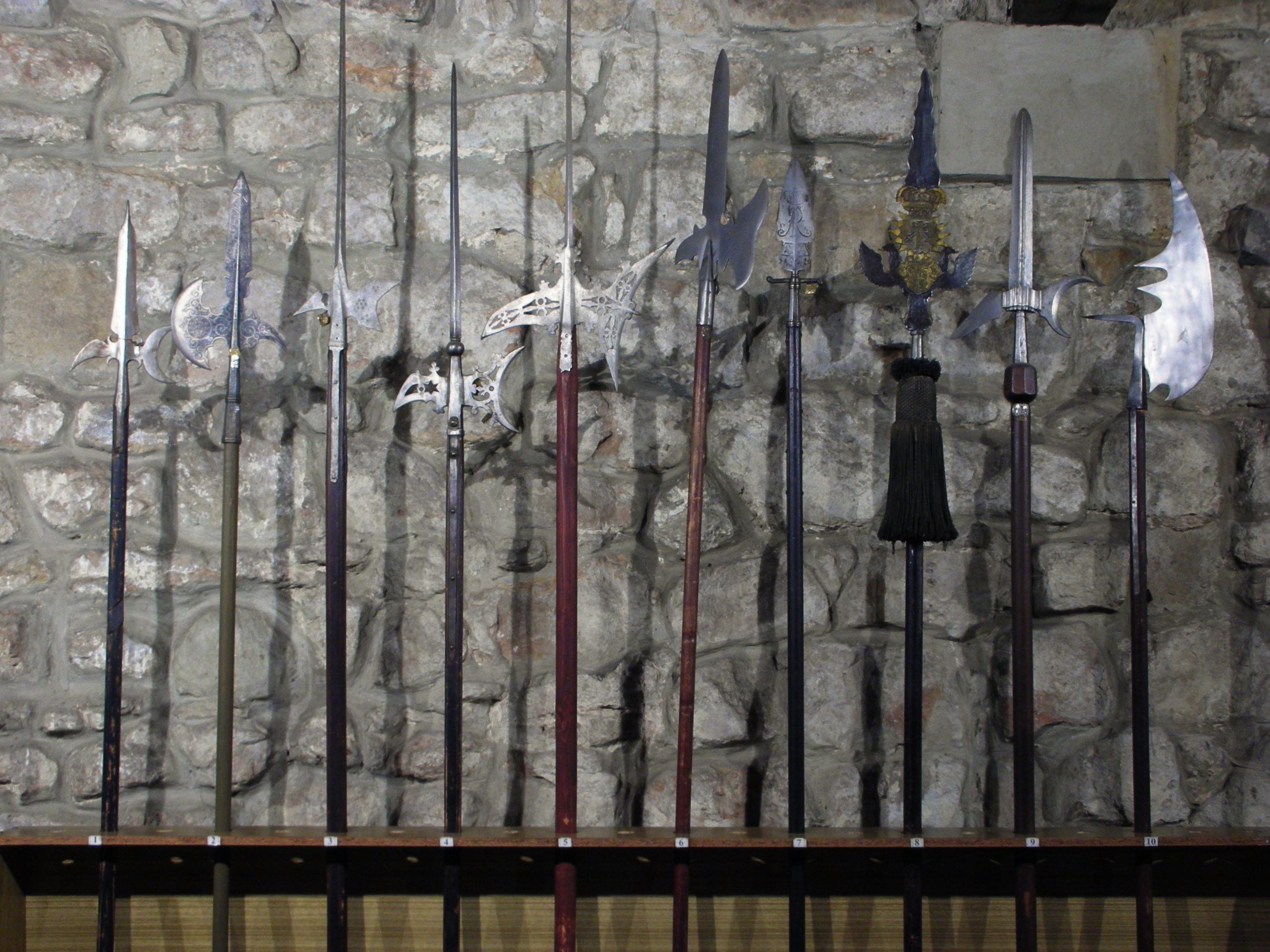 Helberds in "Arsenal" Museum in Lviv (Ukraine).